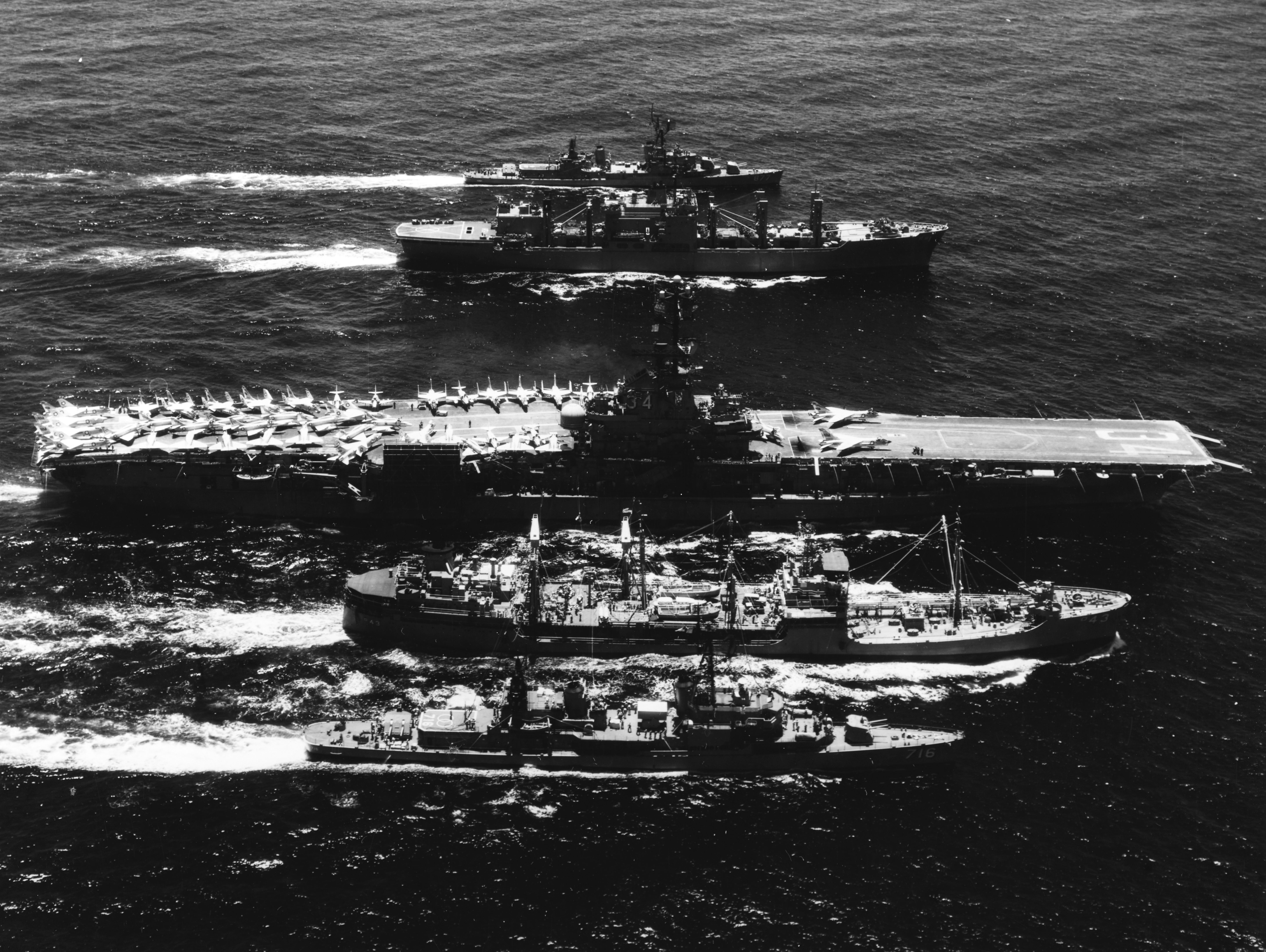 The U.S. Navy aircraft carrier USS Oriskany (CVA-34) and two destroyers during an underway replenishment off Vietnam, in May 1969. The Oriskany, with assigned Carrier Air Wing 19 (CVW-19), was deployed to Vietnam from 16 April to 17 November 1969. The follwoing ships are visible (bottom to top): USS Wiltsie (DD-716), USS Tappahannock (AO-43), USS Oriskany (CVA-34), USS Mars (AFS-1), and USS Perkins (DD-877).